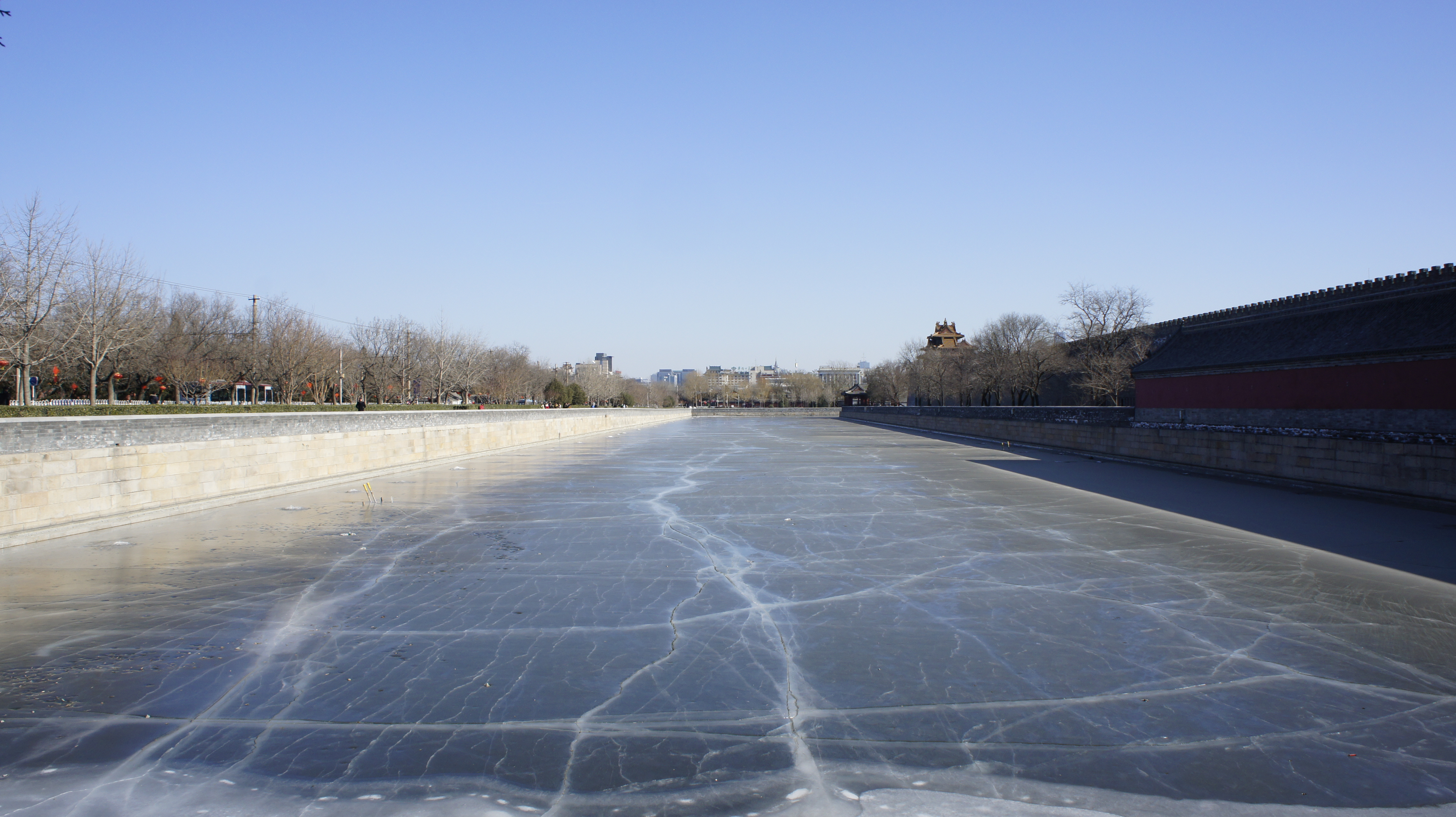 Moat (护城河) surrounds the Forbidden City.